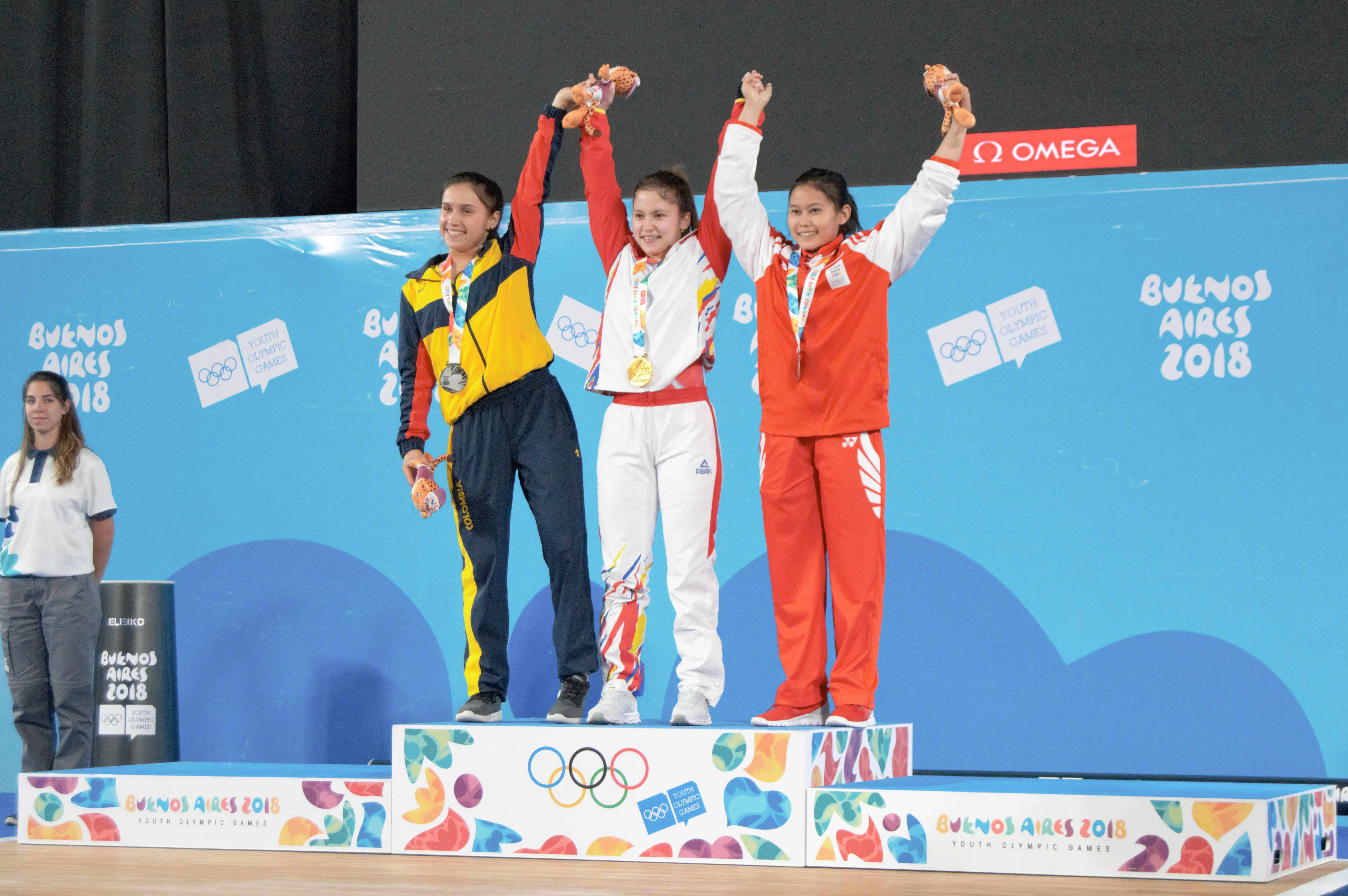 Victory ceremony of the Girls' 53kg Group A Weightlifting competition of the 2018 Summer Youth Olympics.